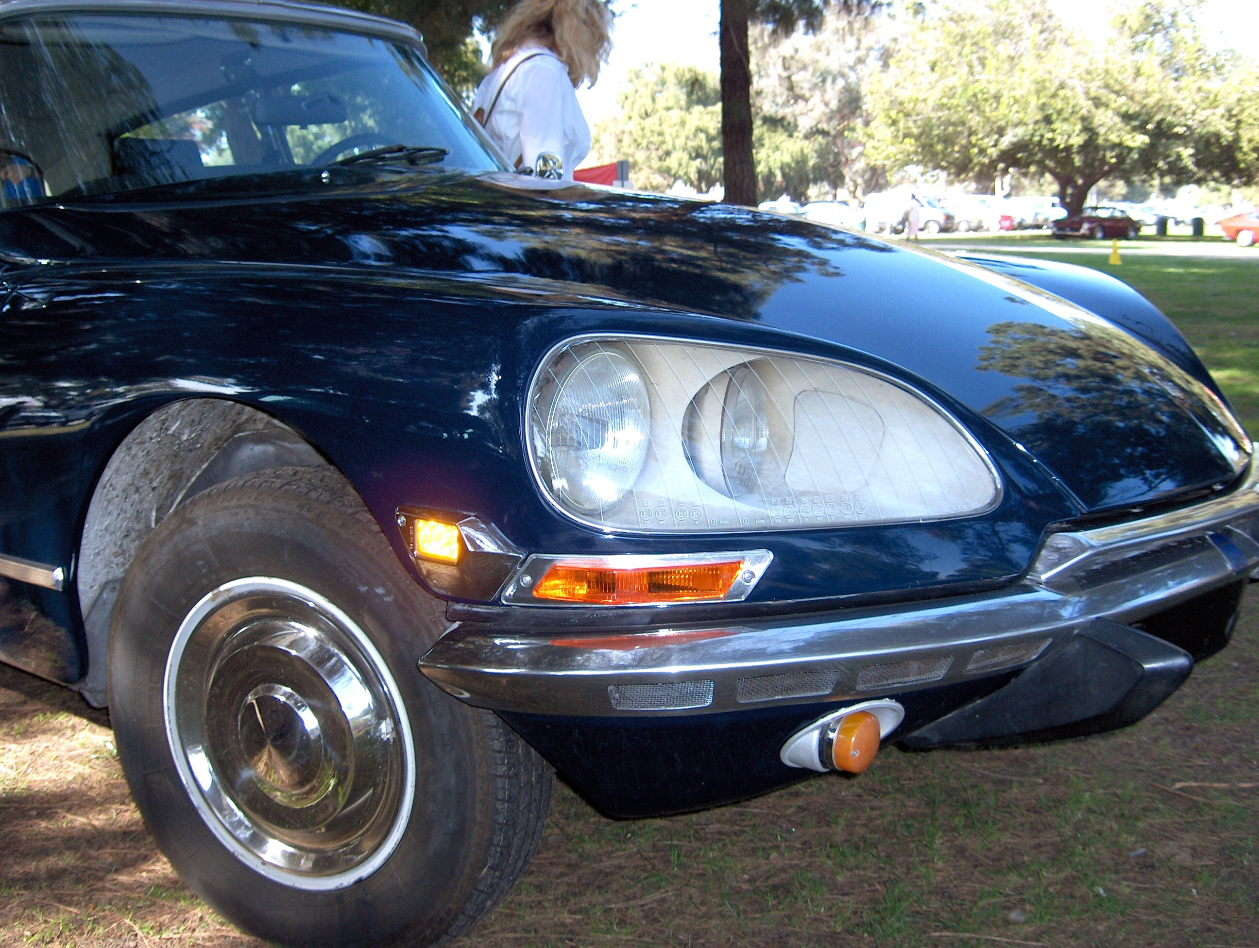 I took this photo in a public location. Visibly not original: extra (position? turn?) light below bumper, and sidelight.